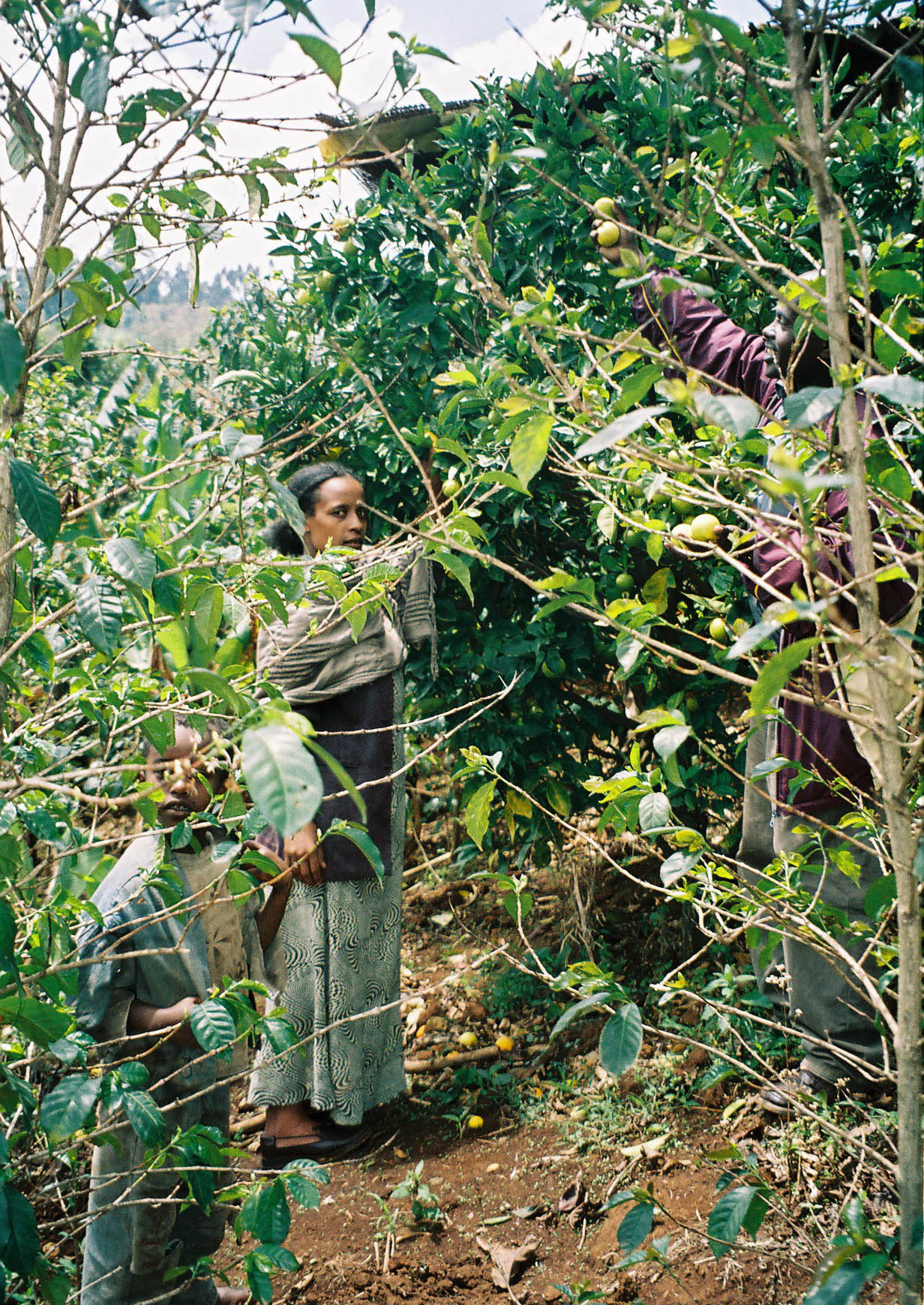 This Ethiopian family work together in their backyard fruit orchard.